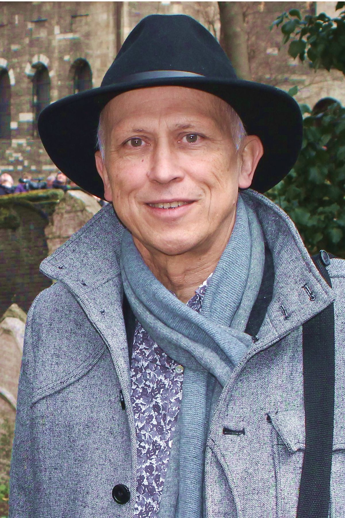 Henk Barendregt at the Old Jewish Cemetery in Prague